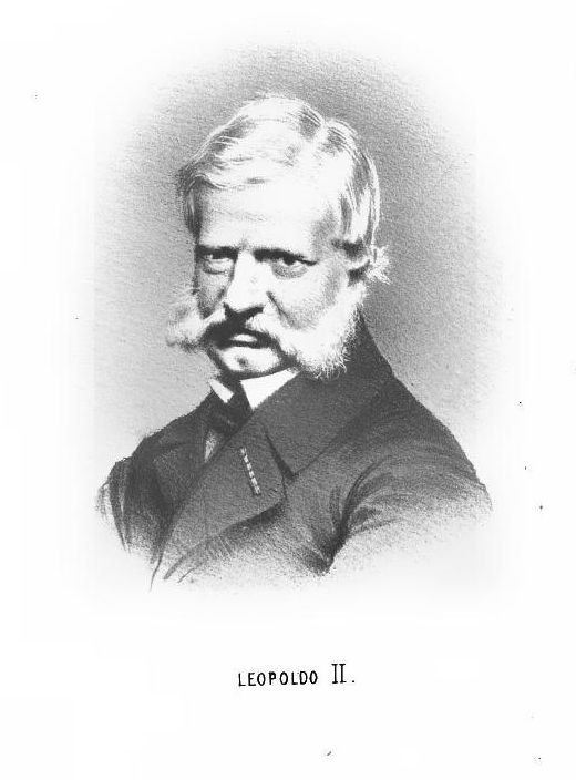 image of Leopoldo II, last granduca of Tuscany from L'ultimo granduca di Toscana by Enrico Montazio, Florence 1870